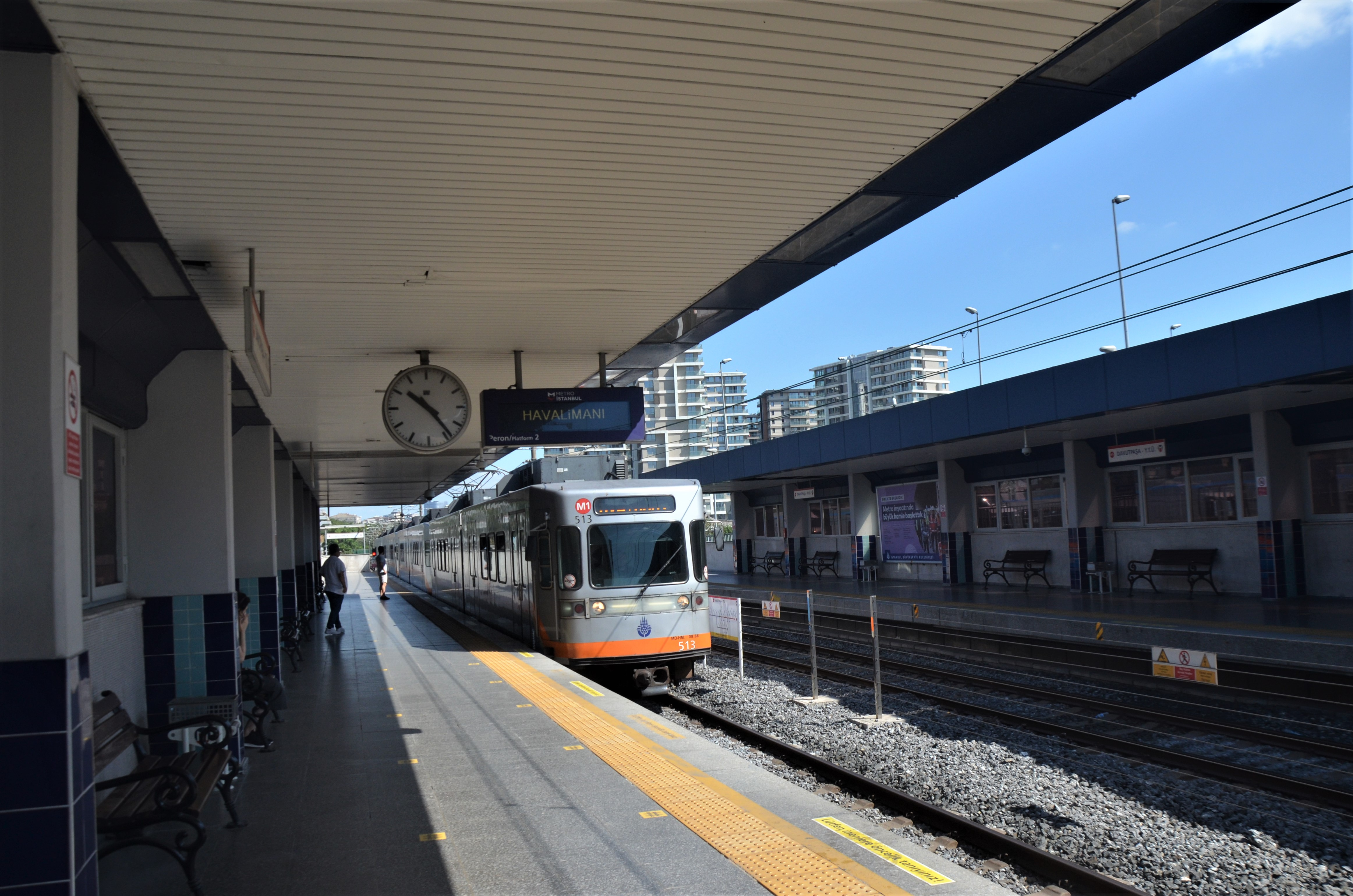 Davutpaşa-YTÜ Station of Metro line M1A in Istanbul, Tukrey